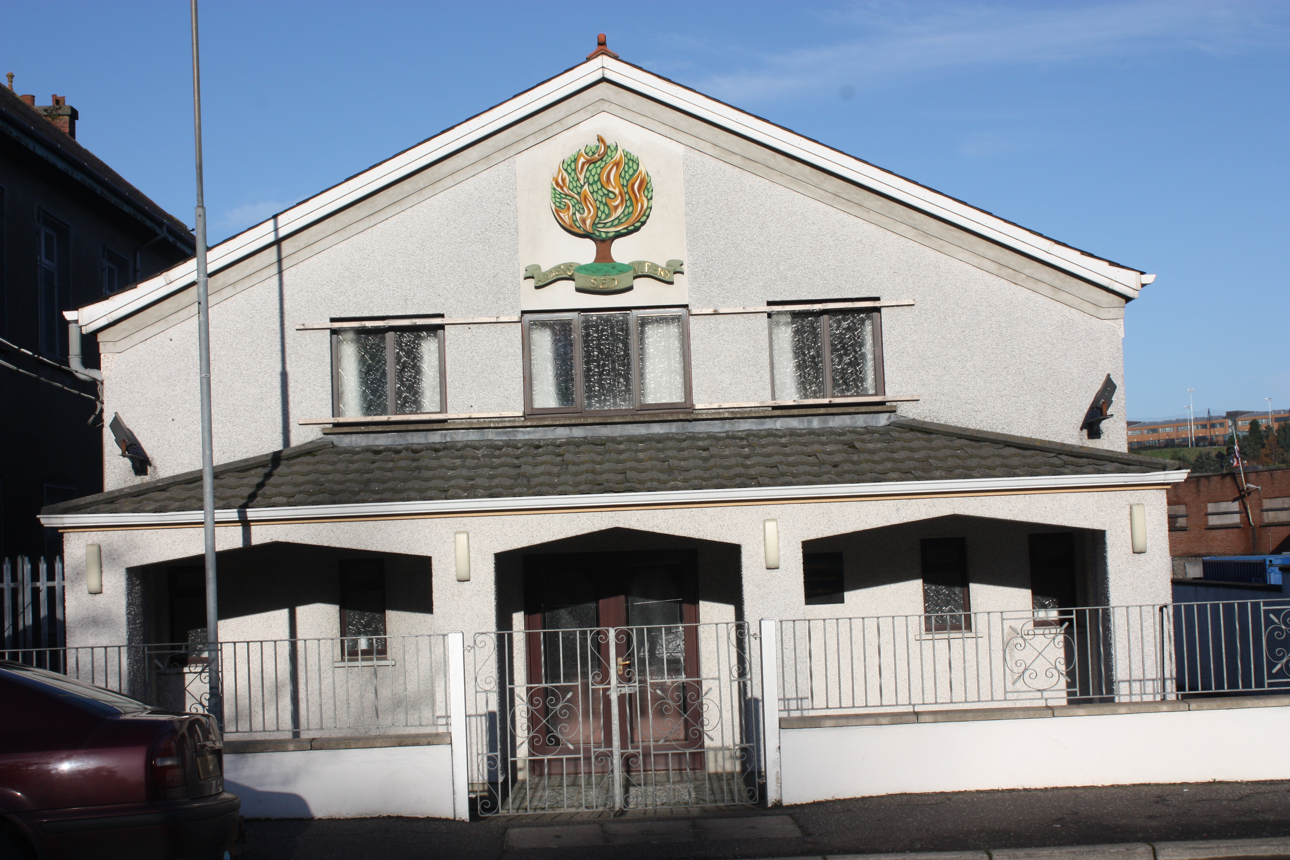 Ballynahinch Free Presbyterian Church, Dromore Road, Ballynahinch, County Down, Northern Ireland, November 2010